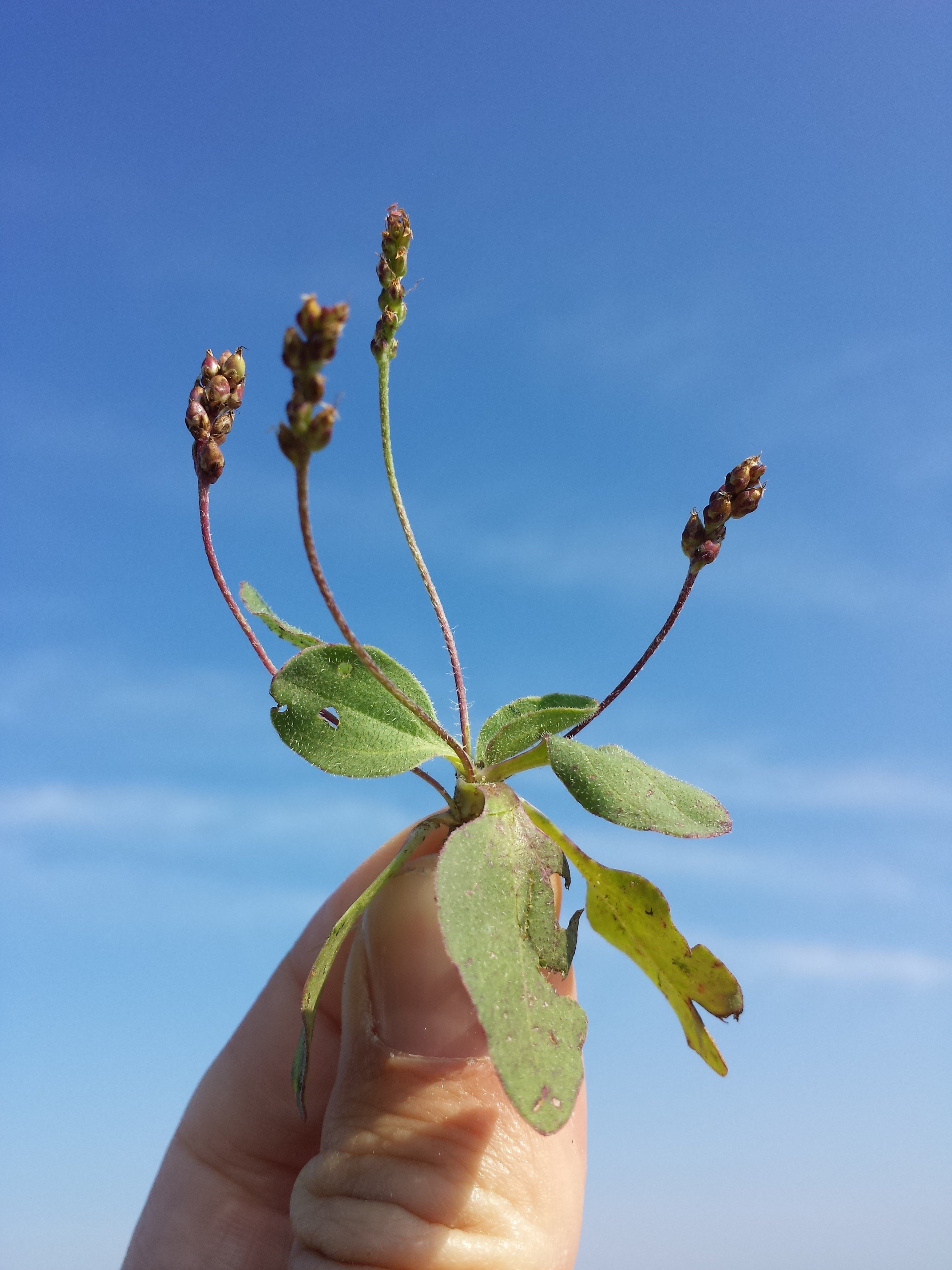 Habitus Taxonym: Plantago major subsp. winteri ss Fischer et al. EfÖLS 2008 ISBN 978-3-85474-187-9 Location: Darscho near Apetlon, district Neusiedl am See, Burgenland, Austria - ca. 120 m a.s.l. Habitat: shore of a small salt lake